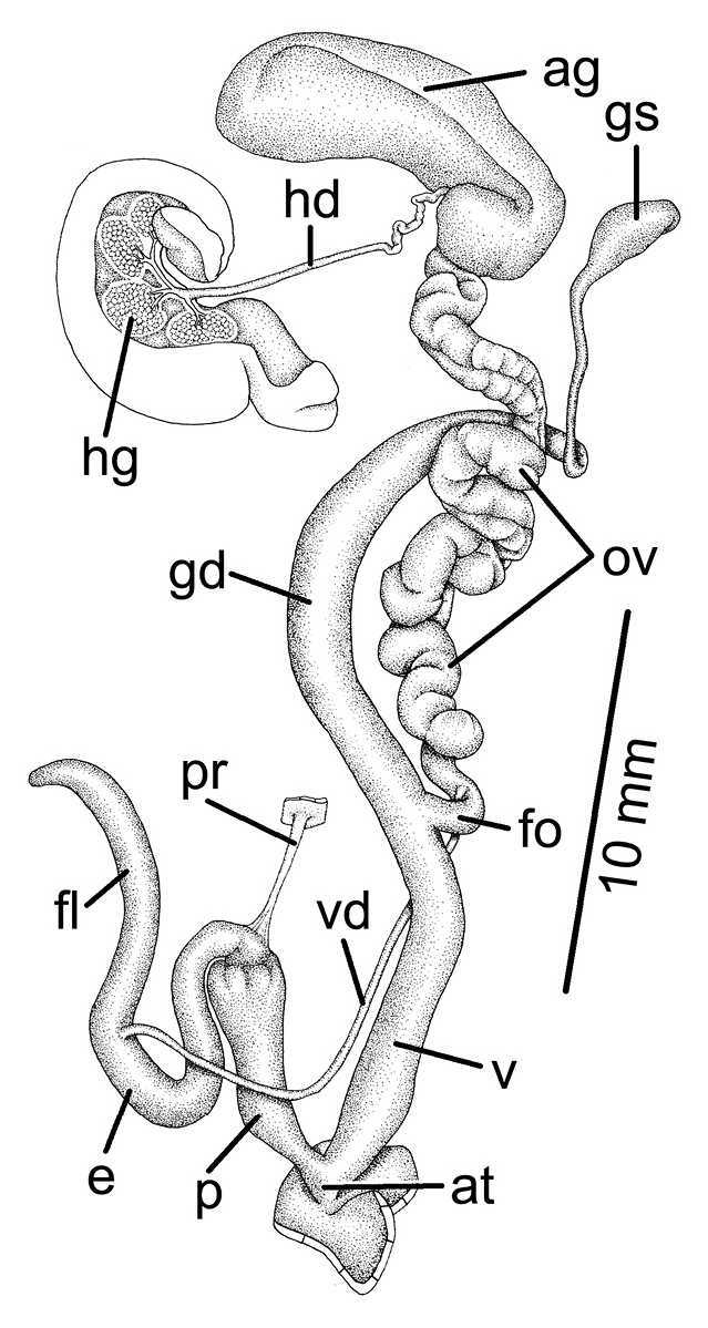 Drawing of a reproductive system of Amphidromus globonevilli. Scale bar is 10 mm. Abbreviations: ag, albumin gland; ap, appendix; at, atrium; e, epiphallus; fl, flagellum; fo, free oviduct; gd, gametolytic duct; gs, gametolytic sac; hd, hermaphroditic duct; hg, hermaphroditic gland; o, oviduct; p, penis; pp, penial pilaster; pm, penial retractor muscle; pv, penial verge; v, vagina; vd, vas deferens; vp, vaginal pilaster.